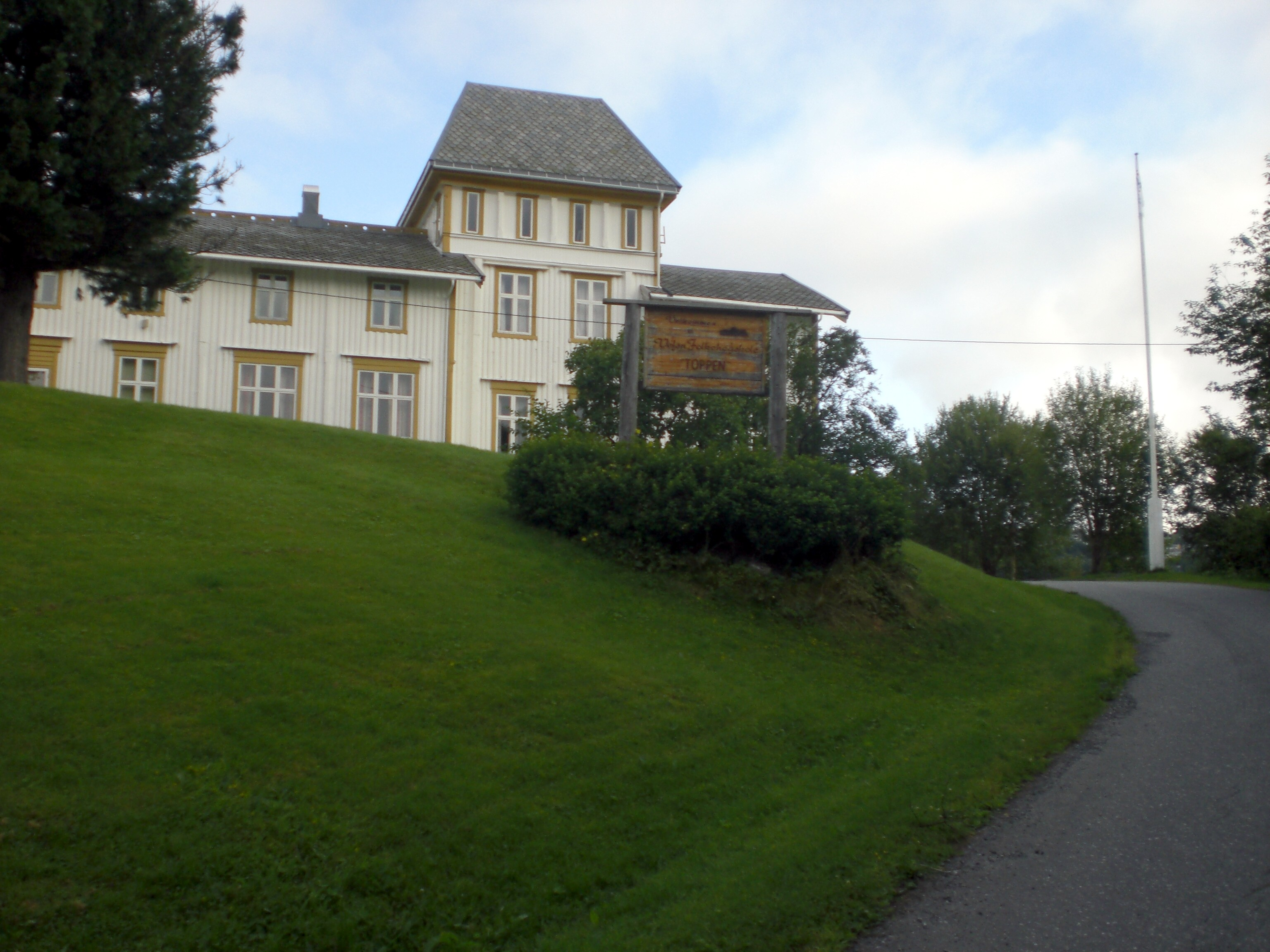 Halsøytoppen or Toppen at Halsøya in Mosjøen, Norway. Vefsn Folkehøgskole.